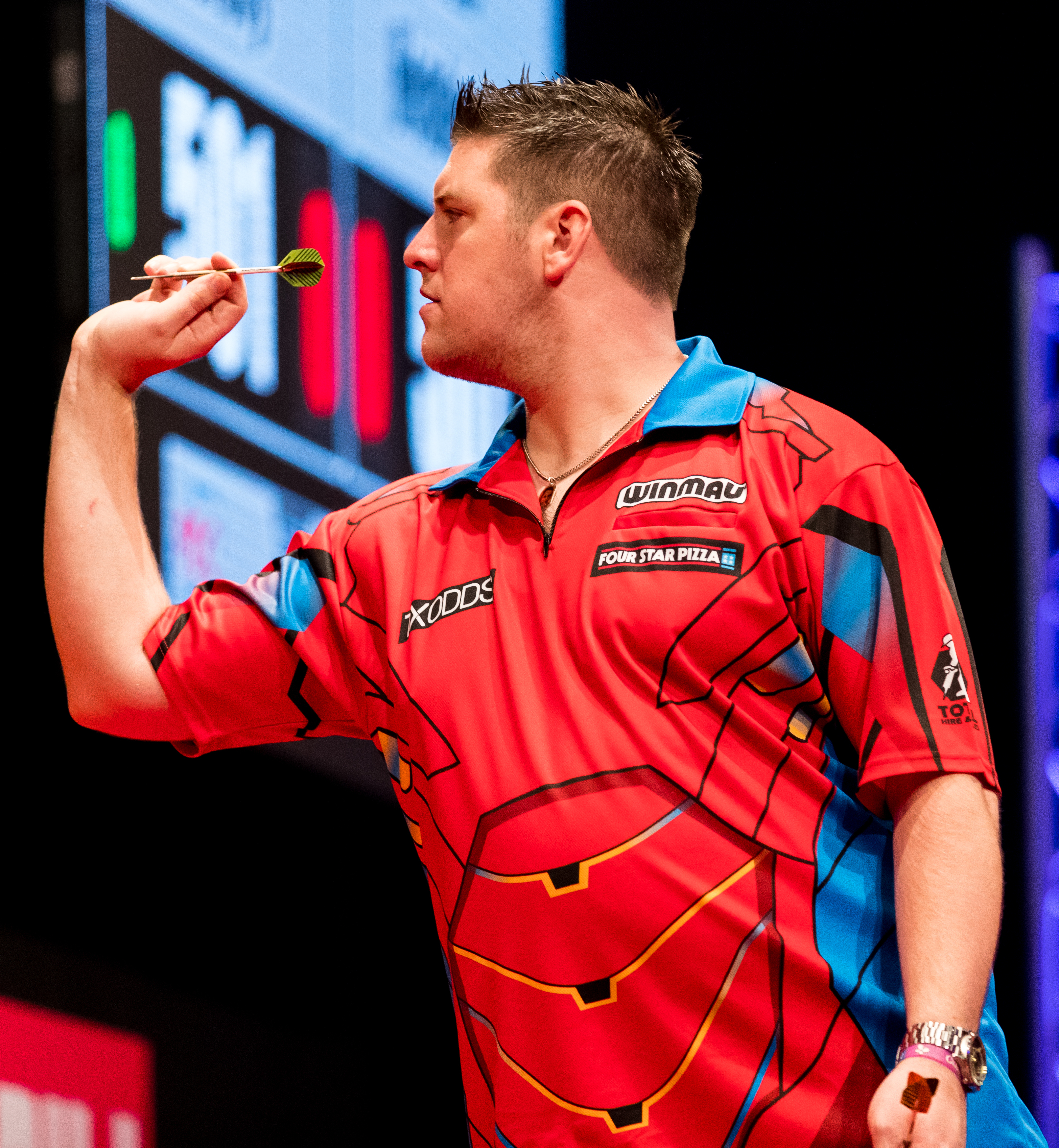 Daryl Gurney 6:4 John Henderson during PDC Europe Darts Matchplay at Maimarkthalle, Mannheim, Baden-Württemberg, Germany on 2019-09-07, Photo: Sven Mandel